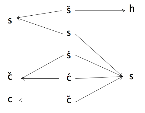 Development of Proto Finnish-Sámi sibilants and affricates